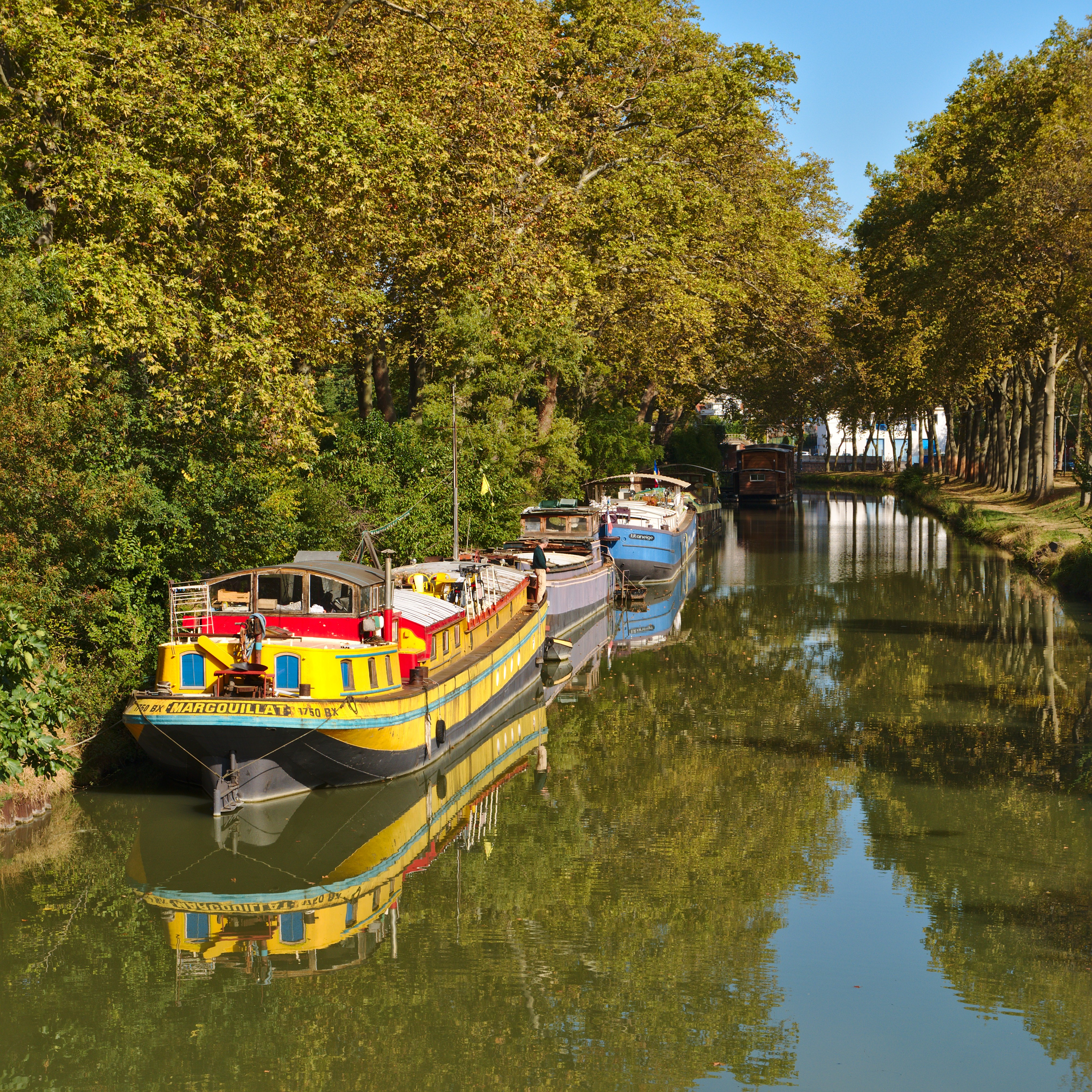 The Canal du Midi seen from the Demoiselles Bridge, in Toulouse.